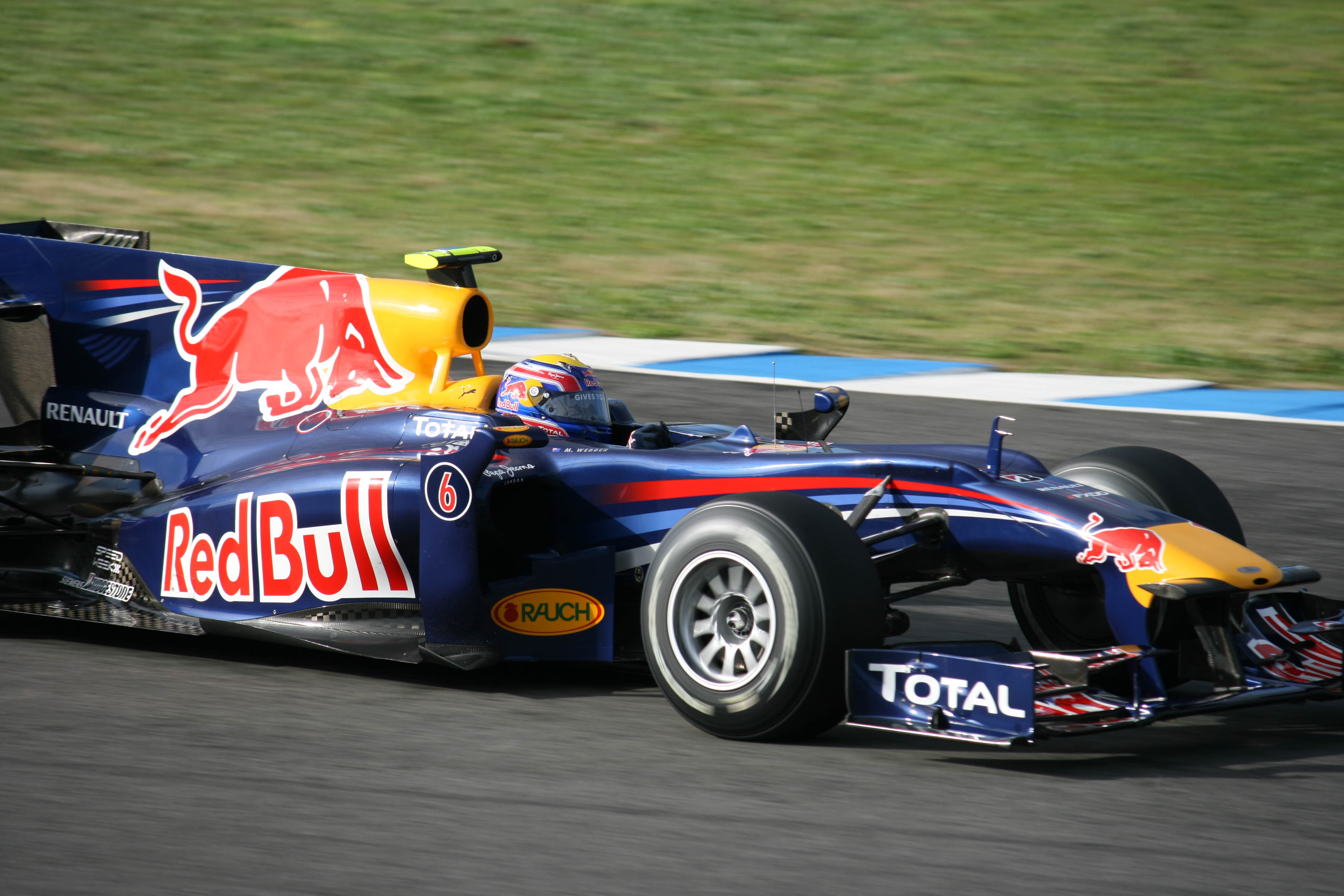 Mark Webber testing for Red Bull Racing at Jerez, 11/02/2010.